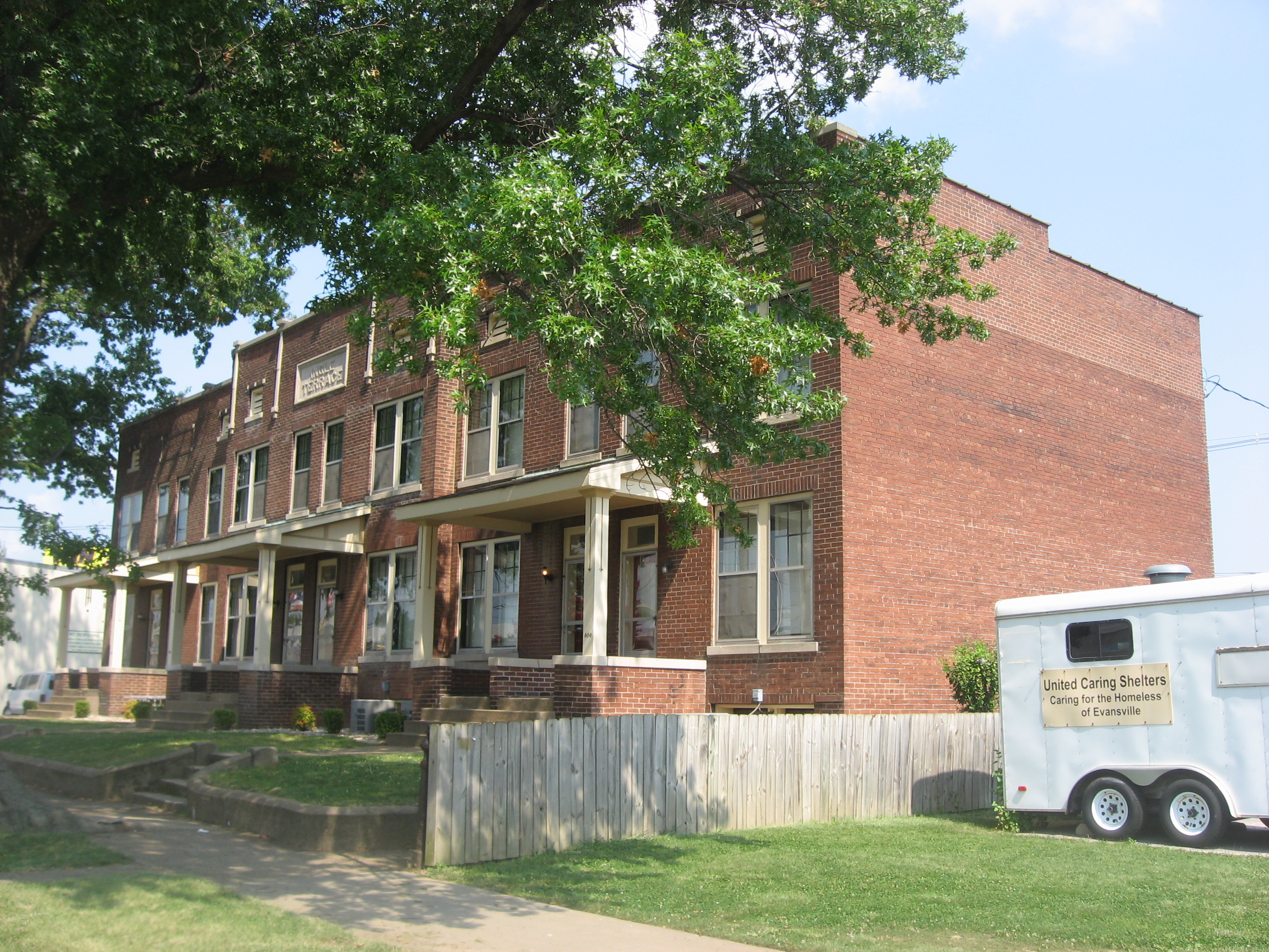 Front of Ingle Terrace, located at 609-619 Ingle Street in Evansville, Indiana, United States. Built in 1910, it is listed on the National Register of Historic Places.